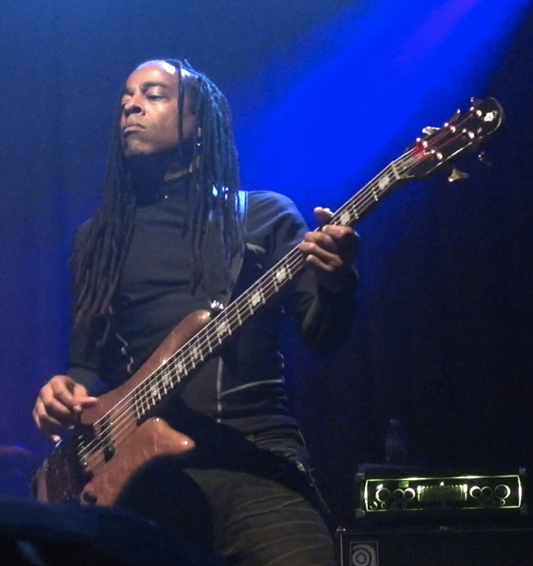 Doug Wimbish at the Million Man Mosh, January 4 2012